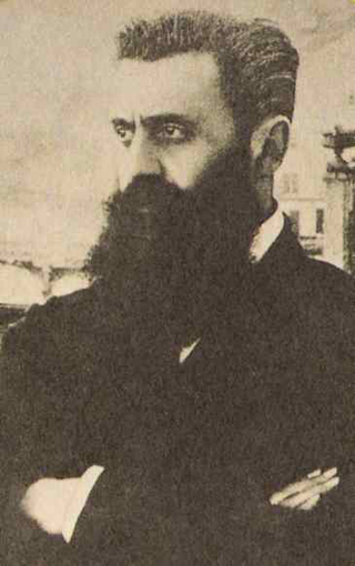 People of Israel